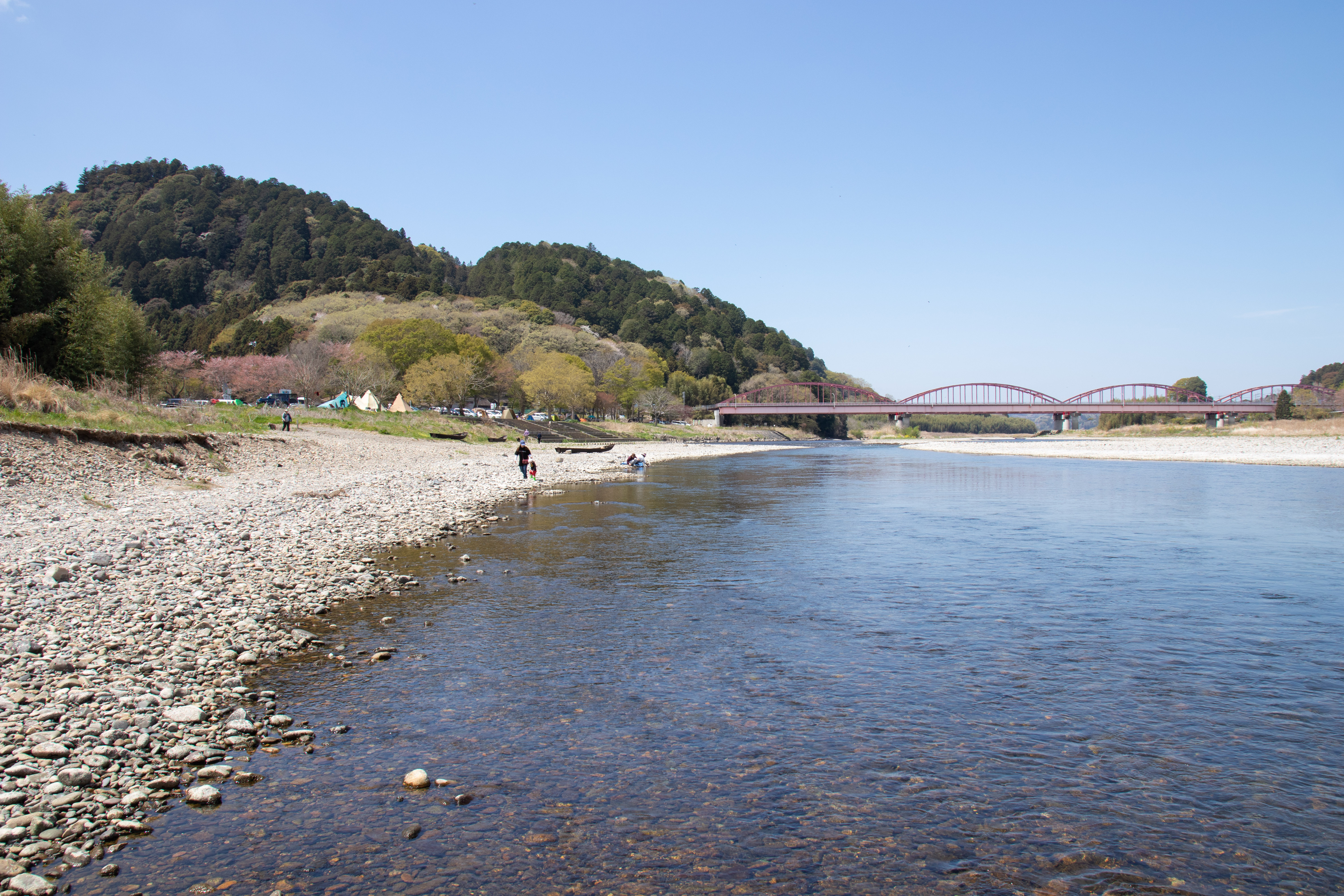 Naka river(Naka-gawa 那珂川), Shirosato Town, Ibaraki, Japan